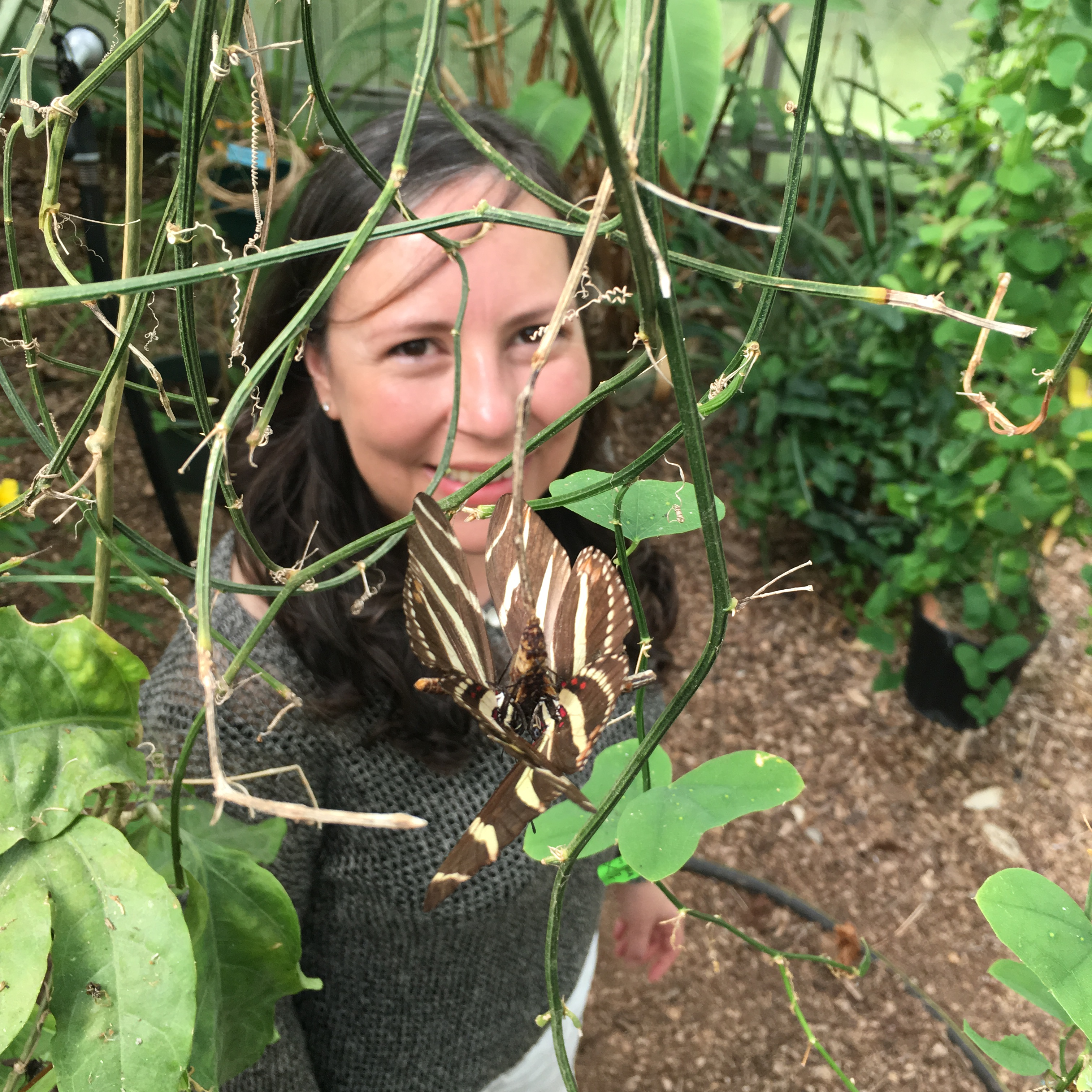 Adriana Briscoe, a biologist, observing butterfly mating behavior